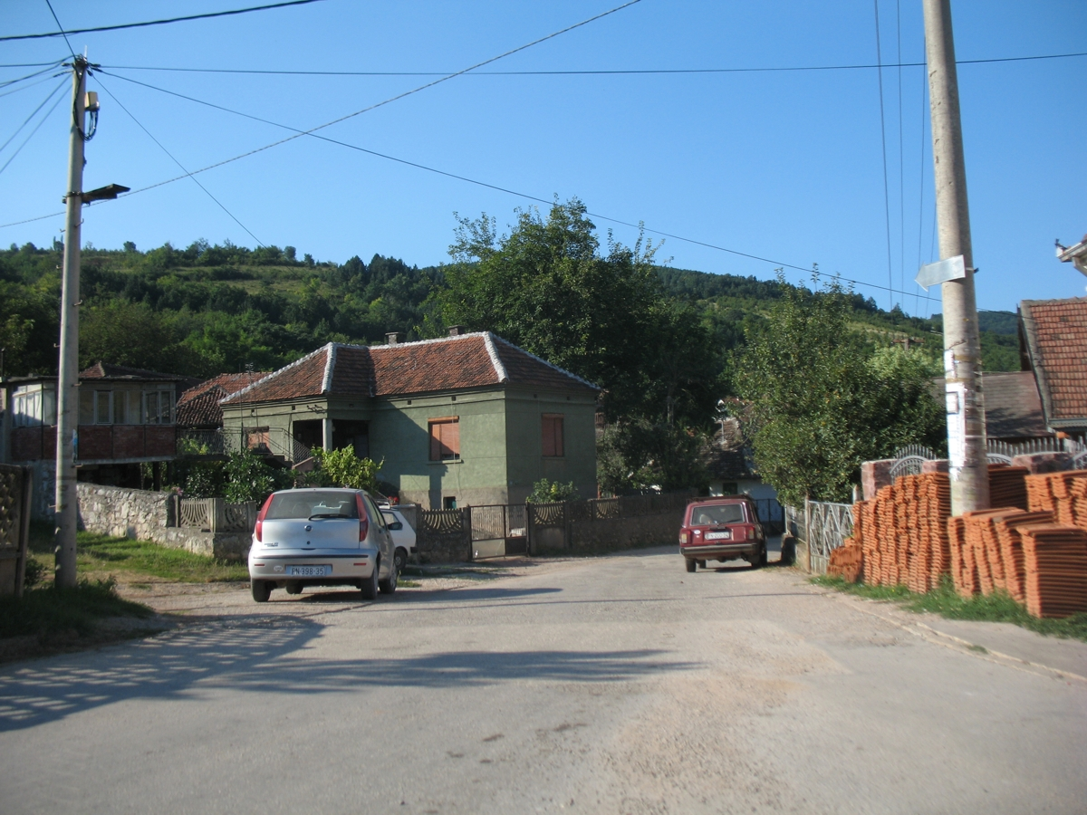 Zabrega,near Paraćin,Serbia.